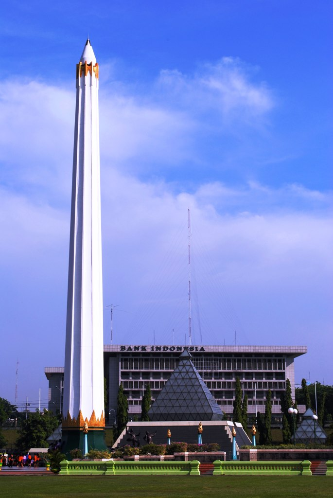 Heroic Monument, Surabaya, Indonesia.